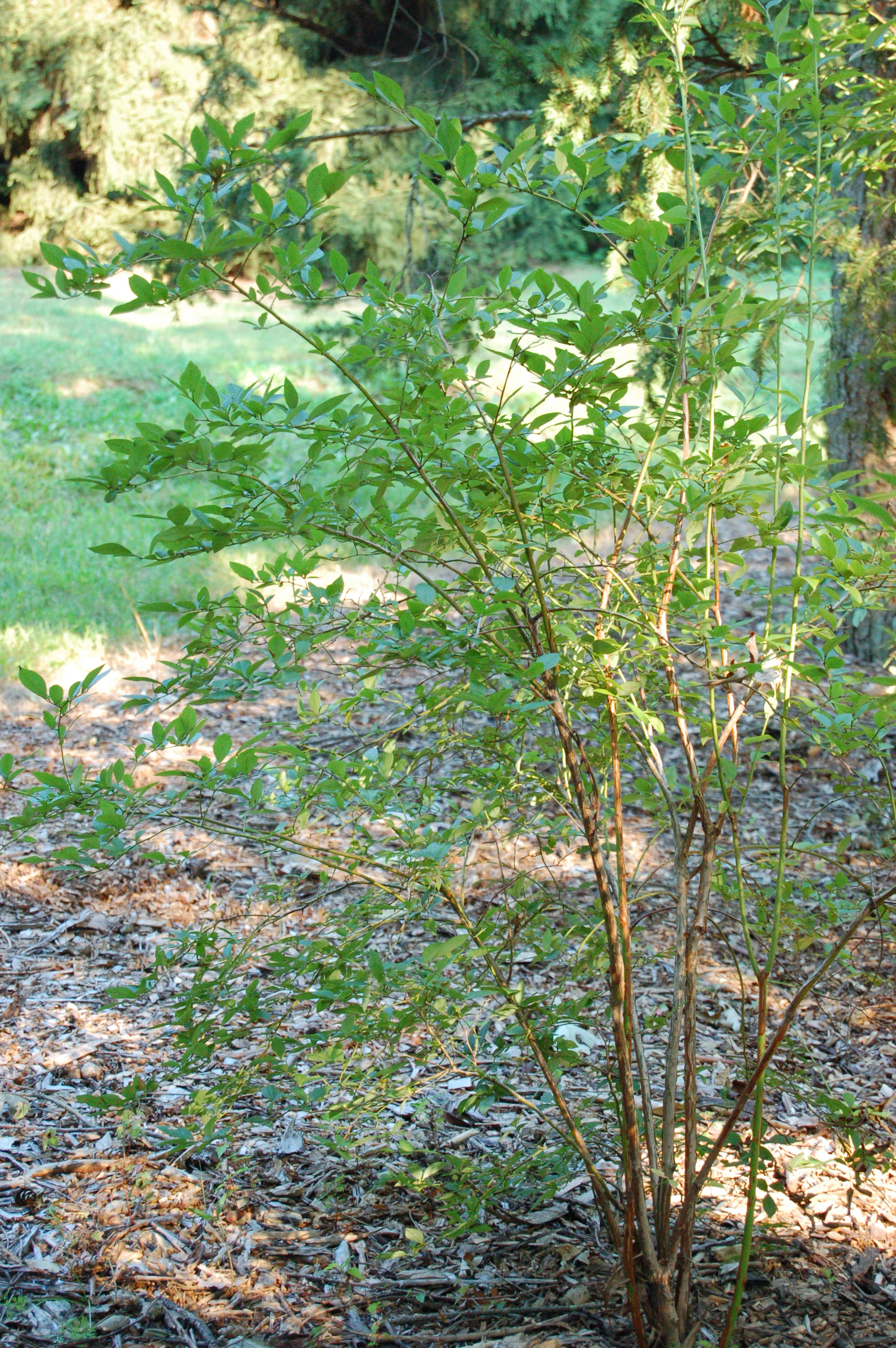 Photograph of the Highbush Blueberryen (Vaccinium corymbosum en ). Photo taken at the Tyler Arboretum where it was identified.